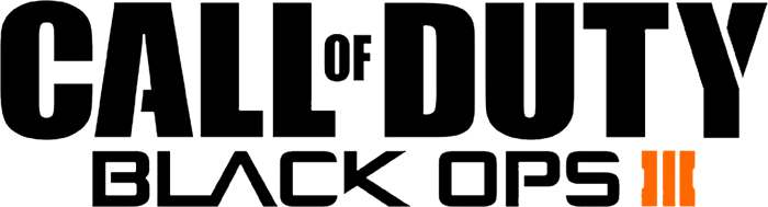 Official logo of the video game Call of Duty: Black Ops III, release on November 6, 2015. Owned by Activision (C)